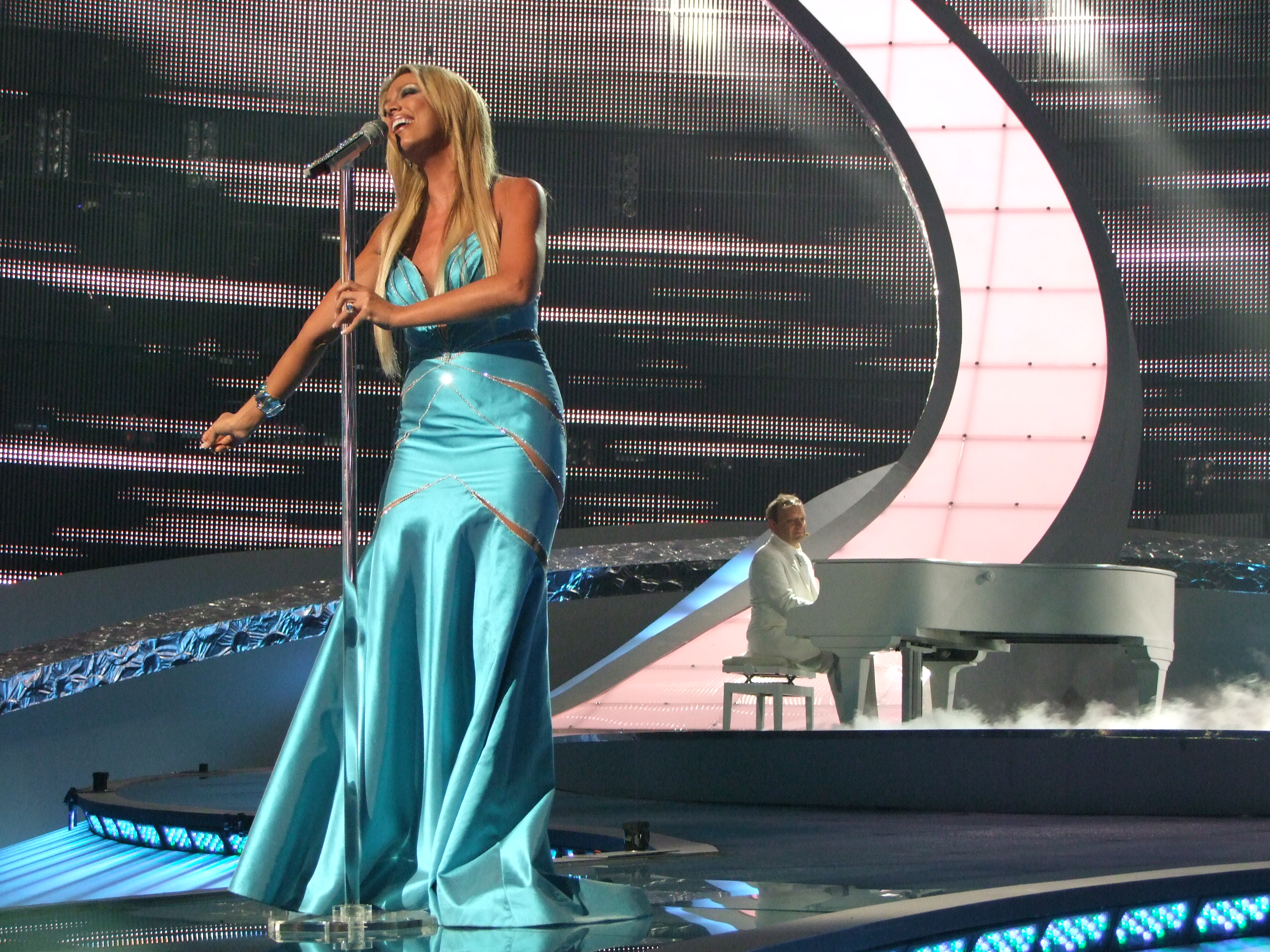 Eurovision Song Contest 2008, 1st semifinalPoland: Isis Gee - For life